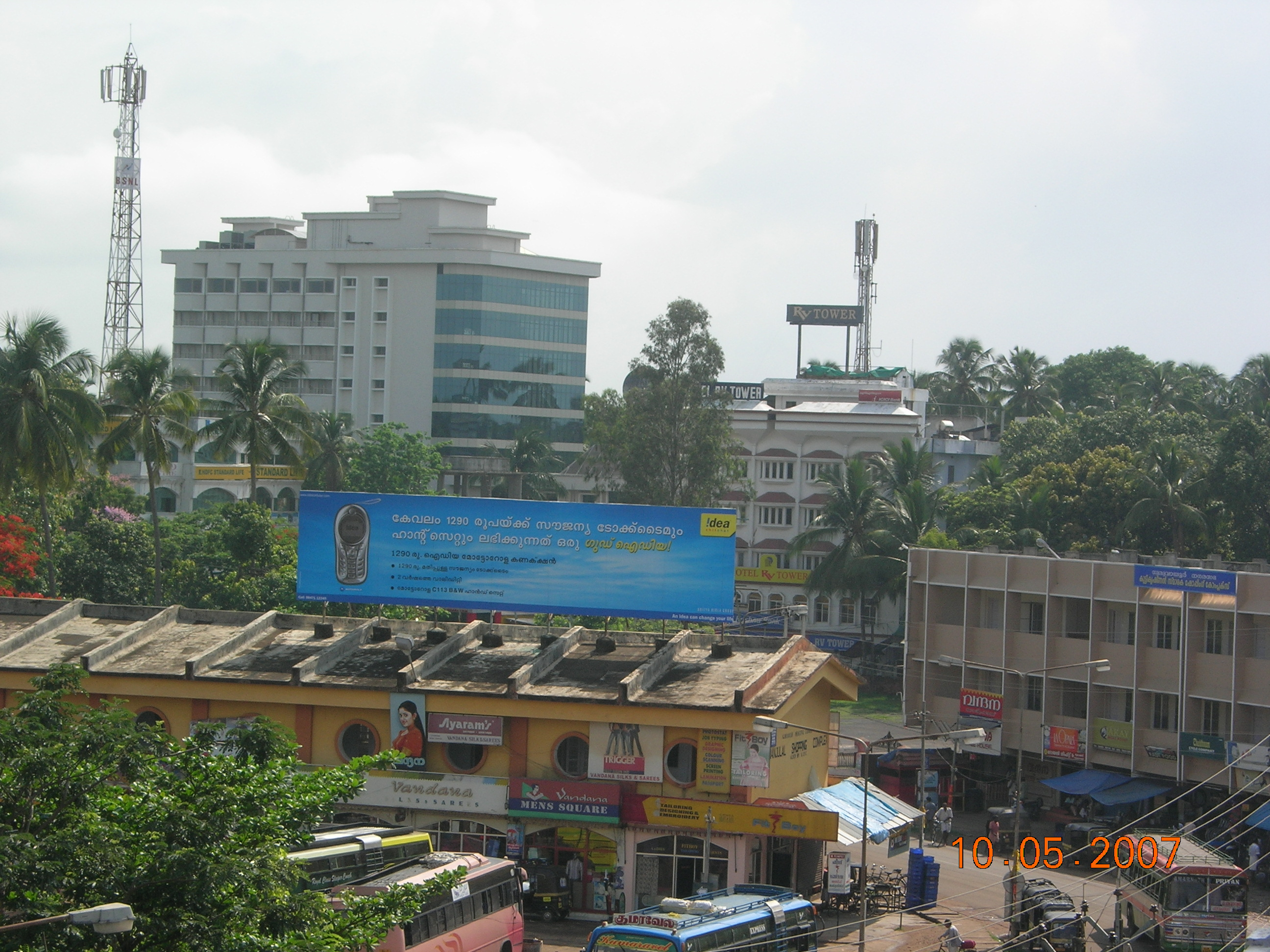 Guruvayur